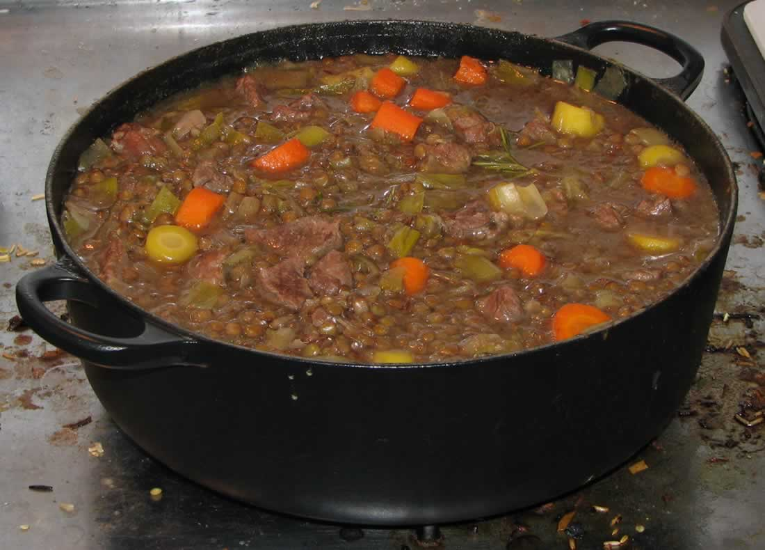 lamb stew with leeks, lentils, yellow (heirloom) and orange carrots, rosemary, and other spices